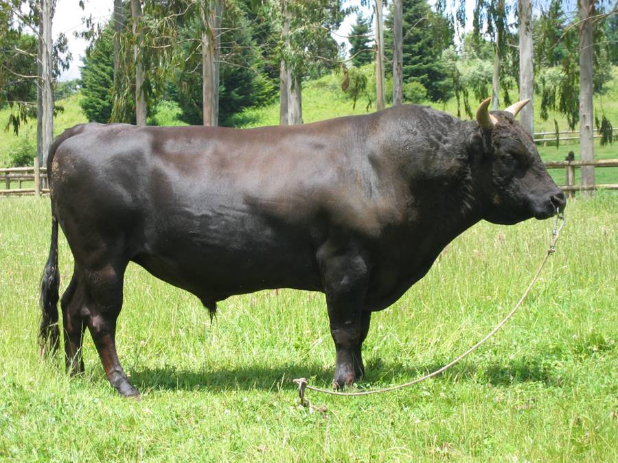 Full Blood Wagyū Bull in Chile